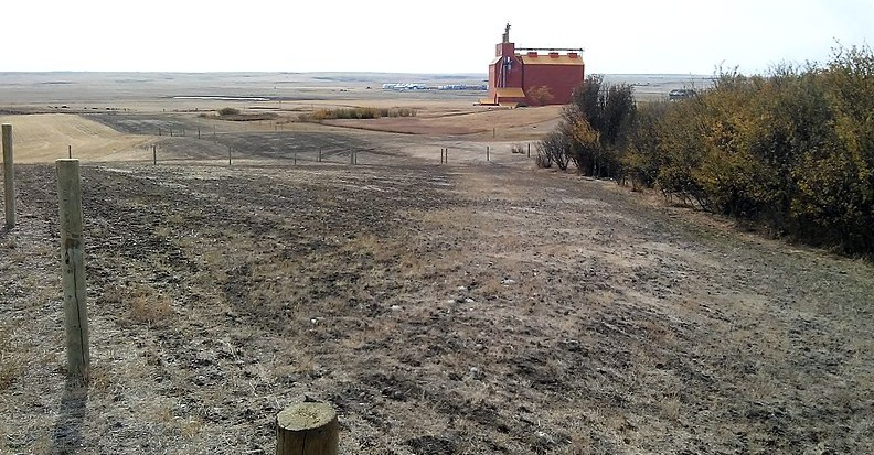 From